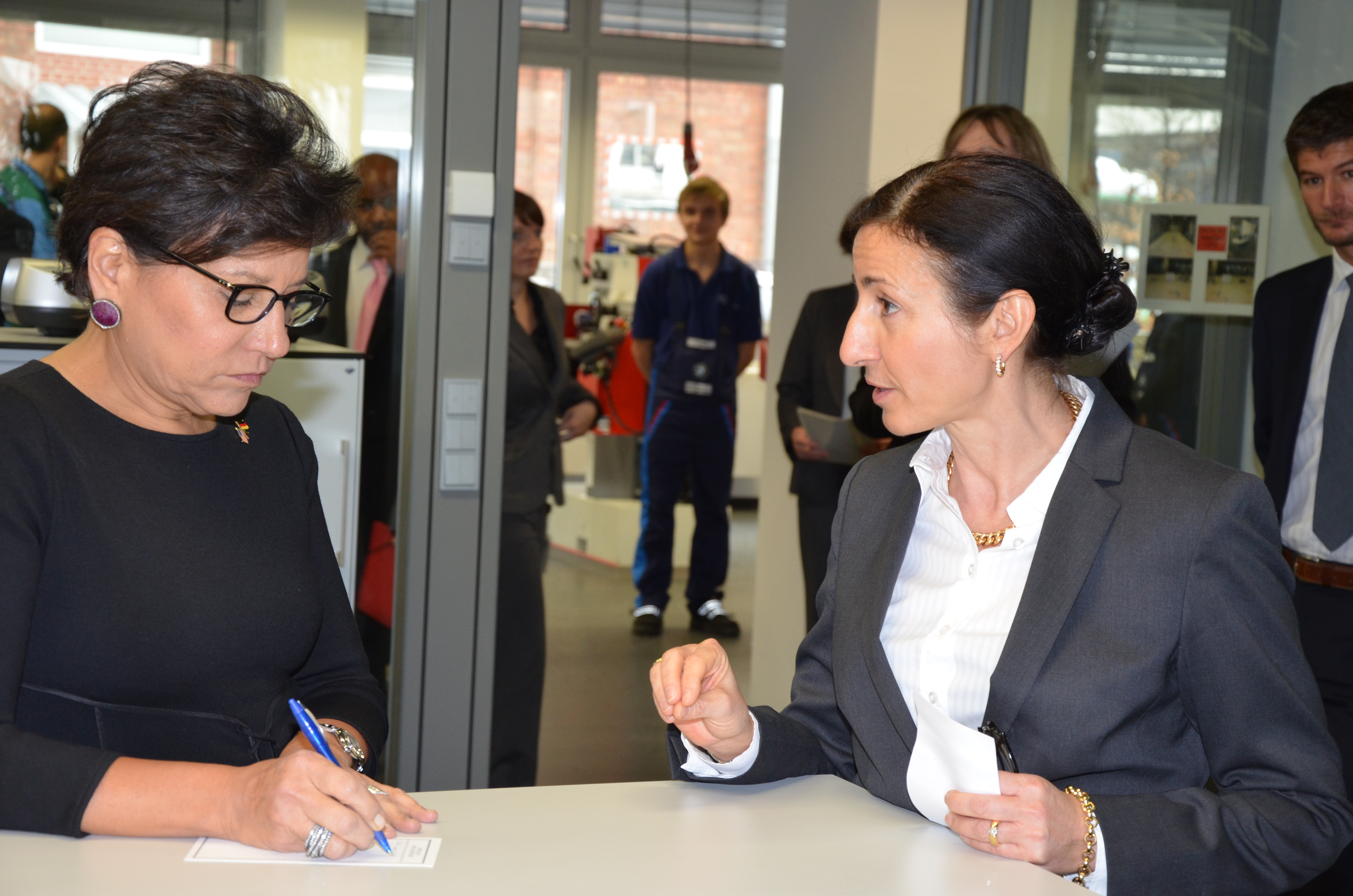 Secretary of Commerce Penny Pritzker visits BMW in Munich. L to R: Penny Pritzker and Milagros Caiña Carreiro-Andree, November 2013